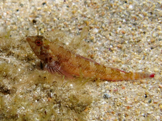 Tripterygion tripteronotus photographed in Corse, France.